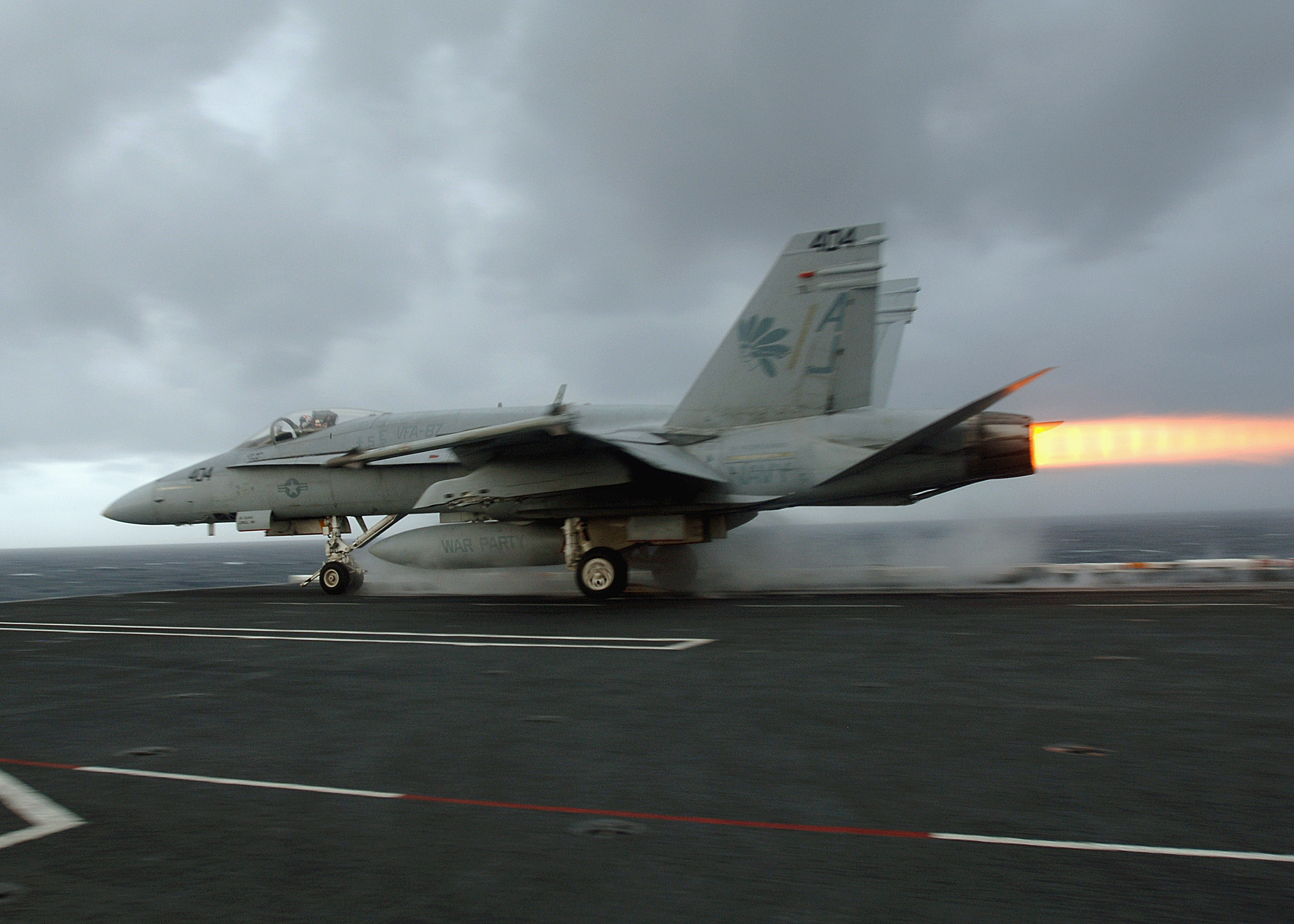 ATLANTIC OCEAN - An F/A-18A+ Hornet assigned to the "Golden Warriors" of Strike Fighter Squadron (VFA) 87 launches from the flight deck of the aircraft carrier USS Theodore Roosevelt (CVN 71). Roosevelt is conducting tailored ship's training availability and final evaluation problem.